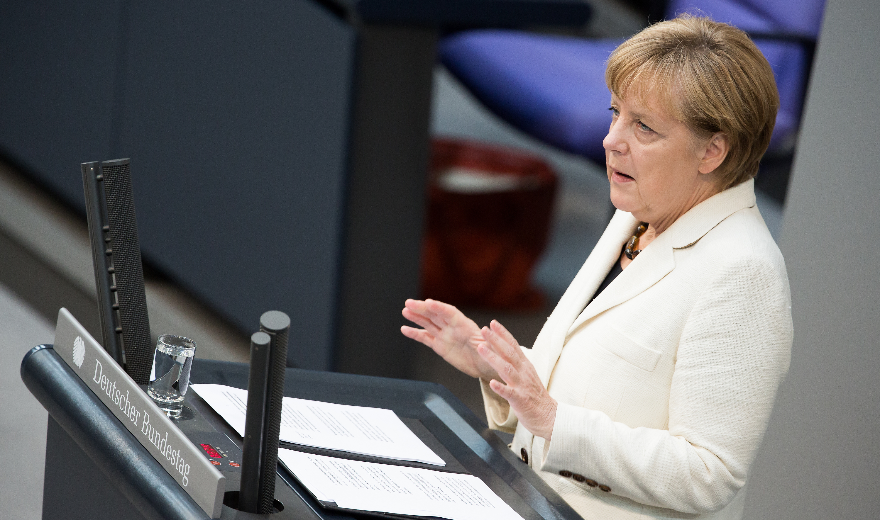 Picture taken during Wikipedia Bundestag project 2014. Angela Merkel.